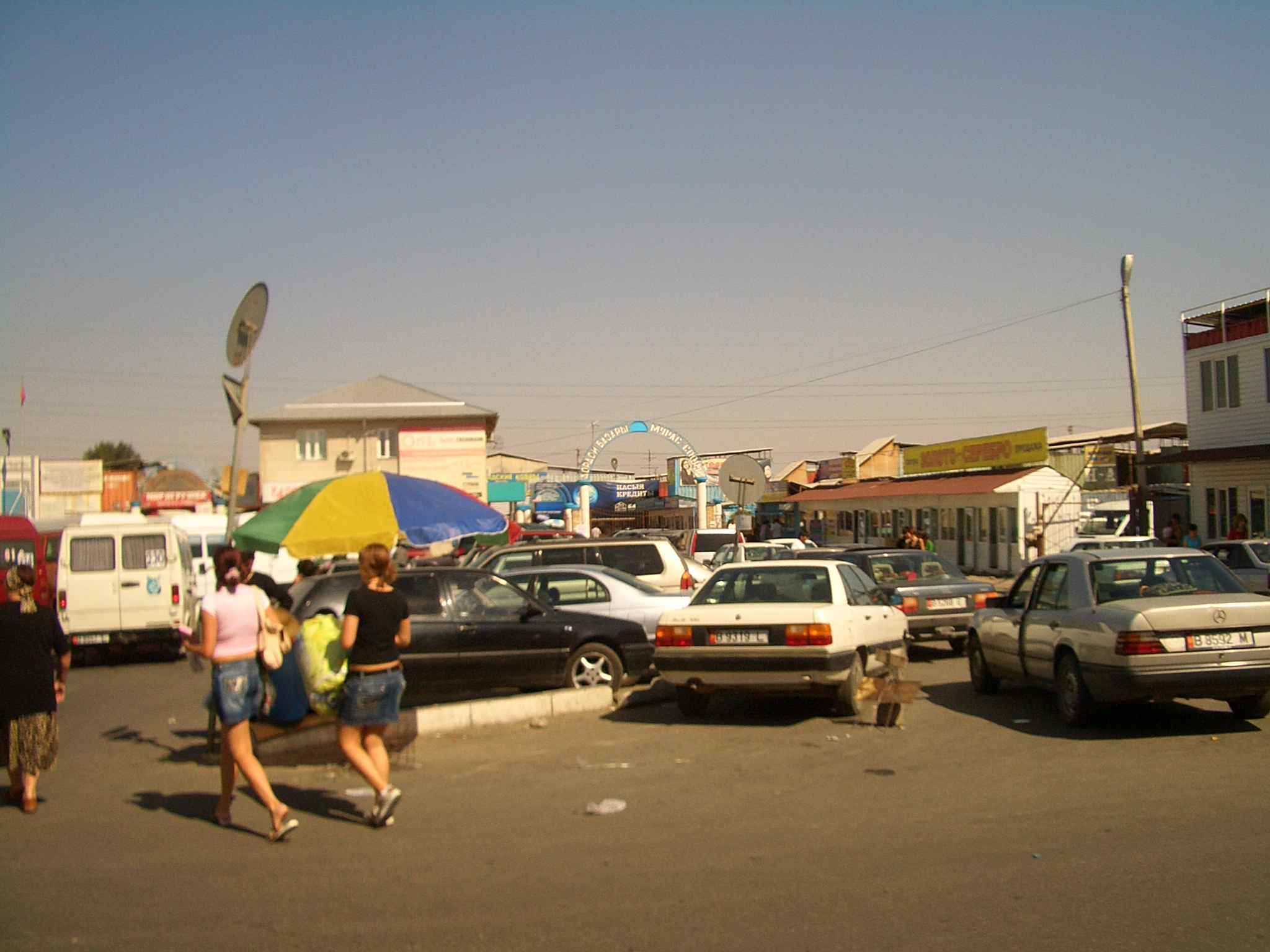 One of many service plazas in Dordoy Bazaar, Bishkek.